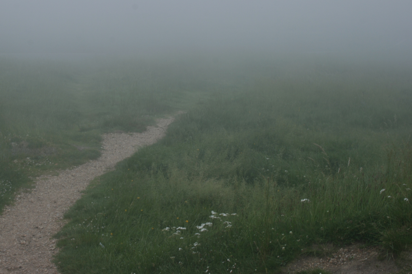 Heavy fog at the pass of Roncesvalles.